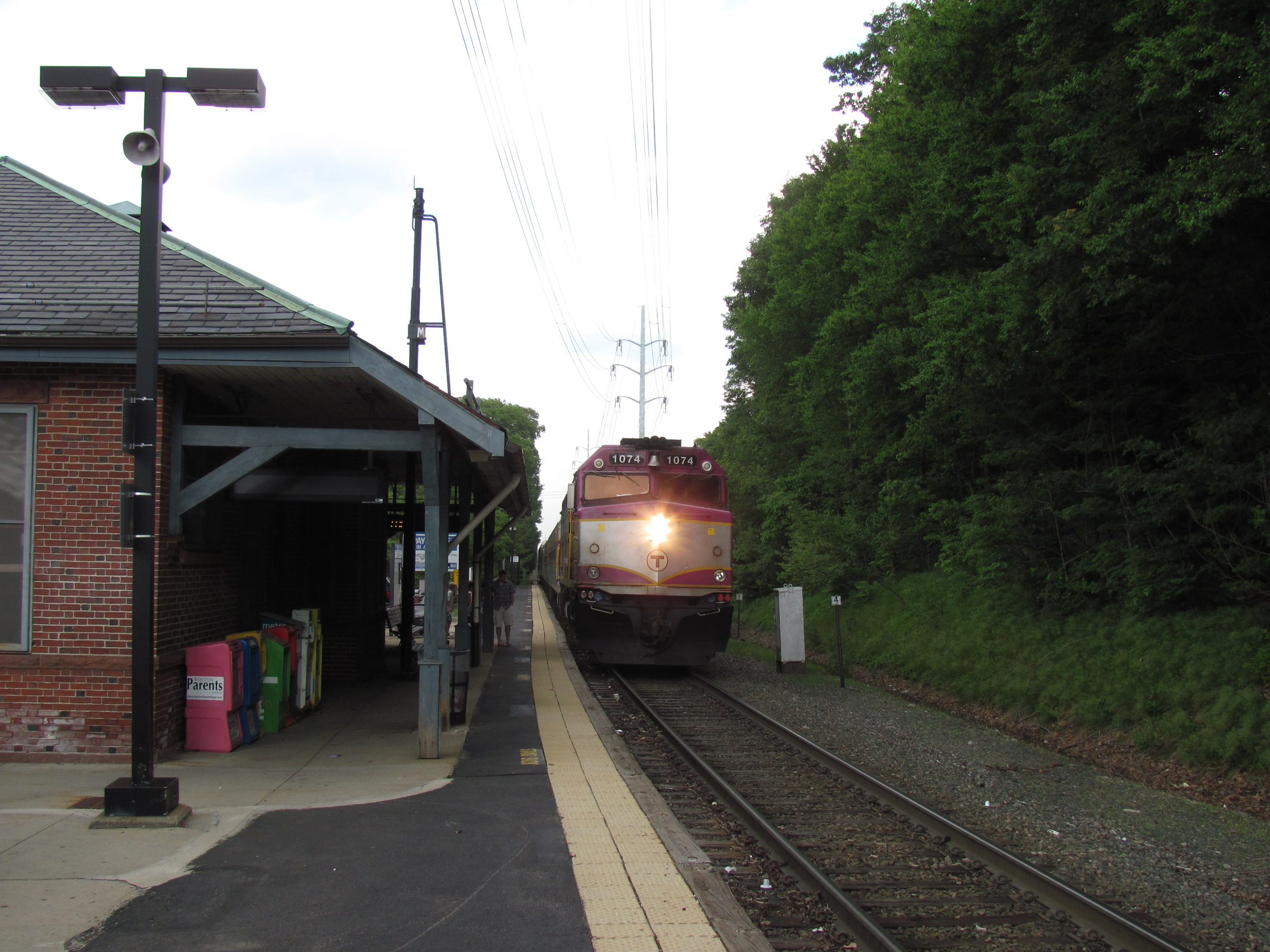 Needham Junction MBTA station, Needham Massachusetts, June 2010